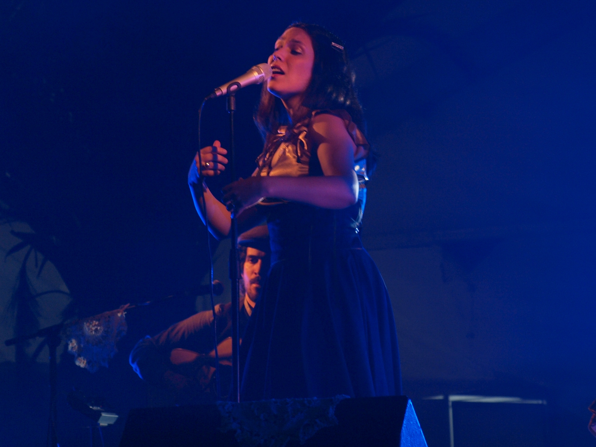 Deolinda (a portuguese band) live at Monchique, Algarve, Portugal.